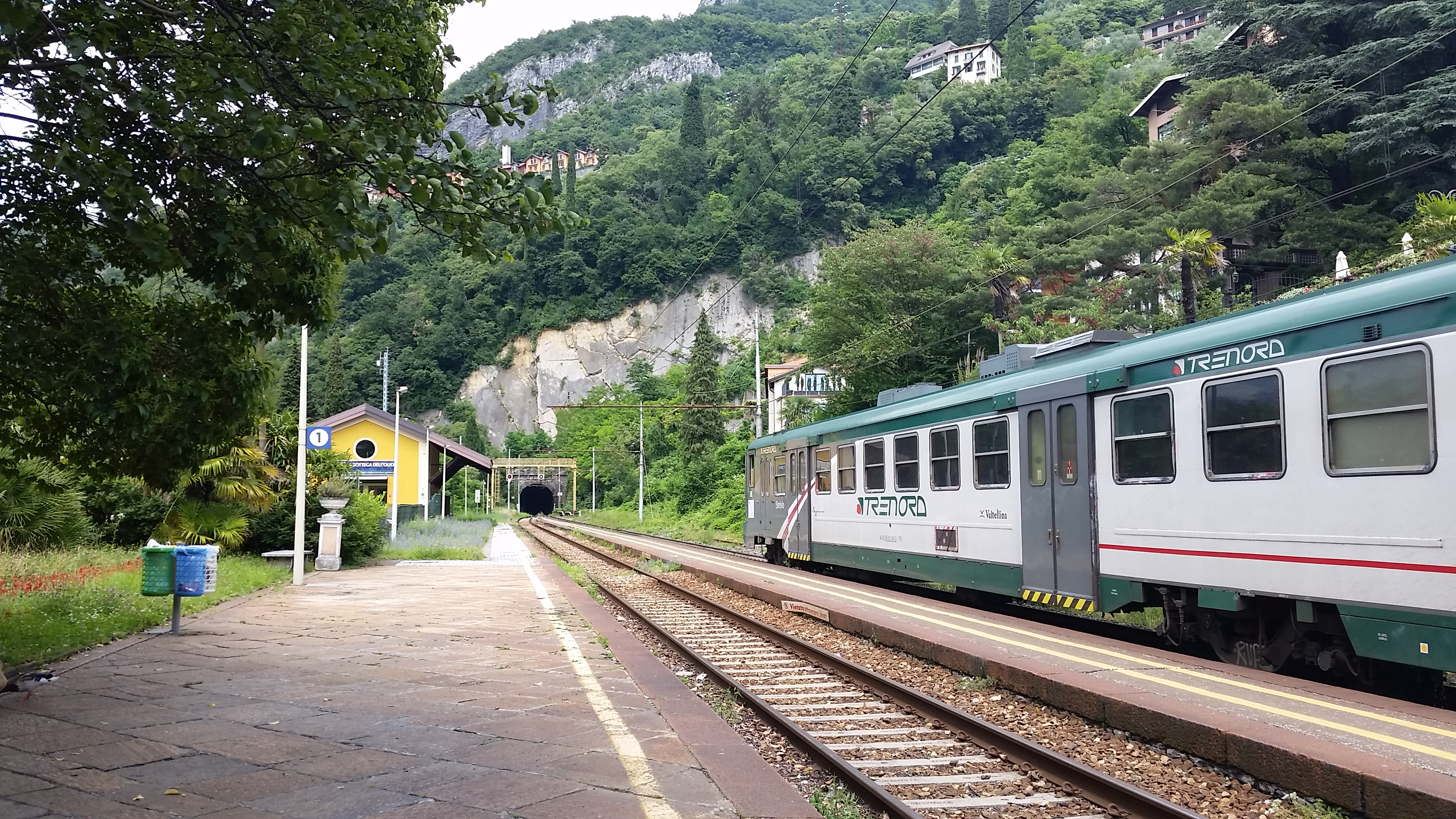 Train station at Varenna, Italy.